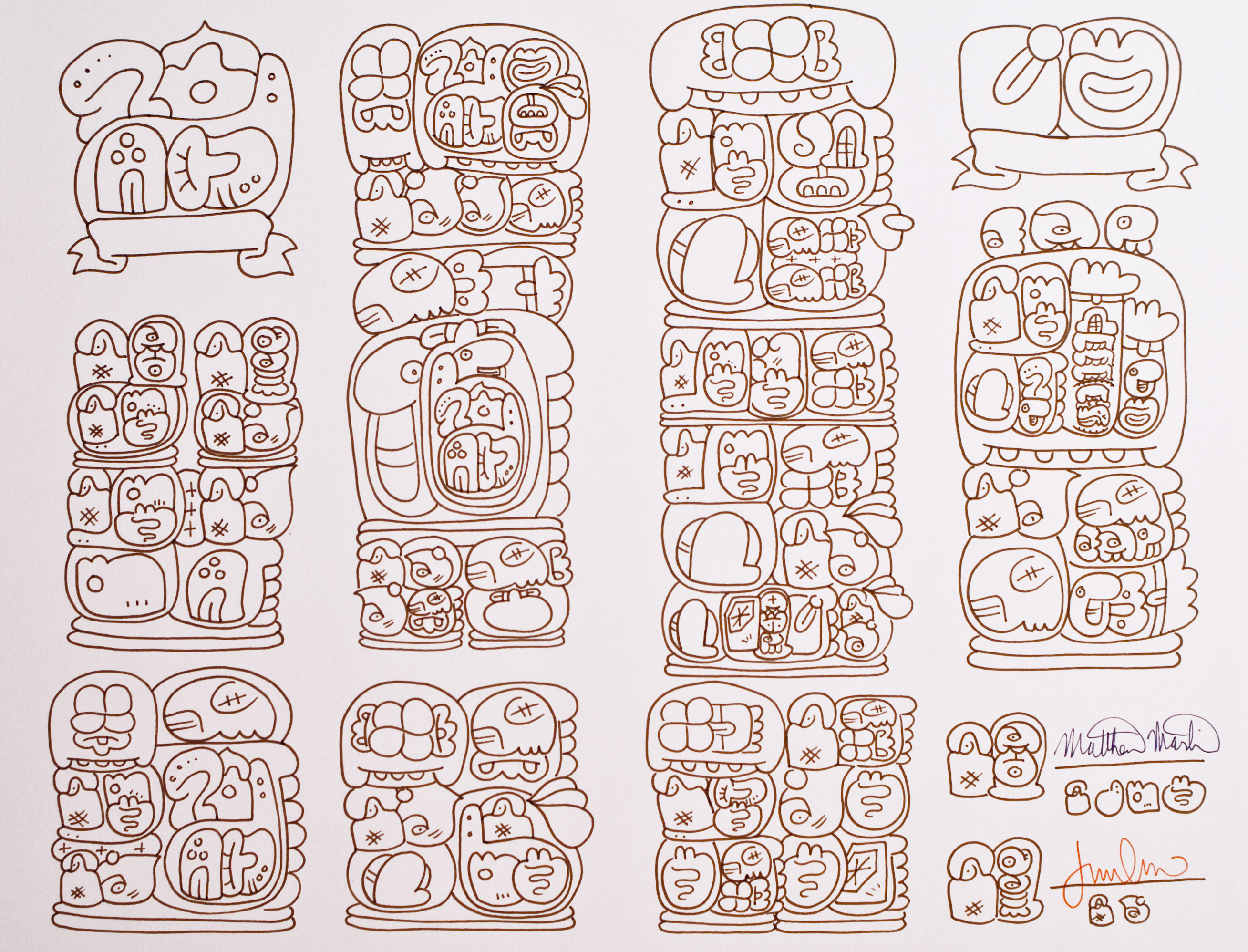 A contract for the sale of itself in a non-linear hieroglyphic writing system of the Toki Pona constructed language.